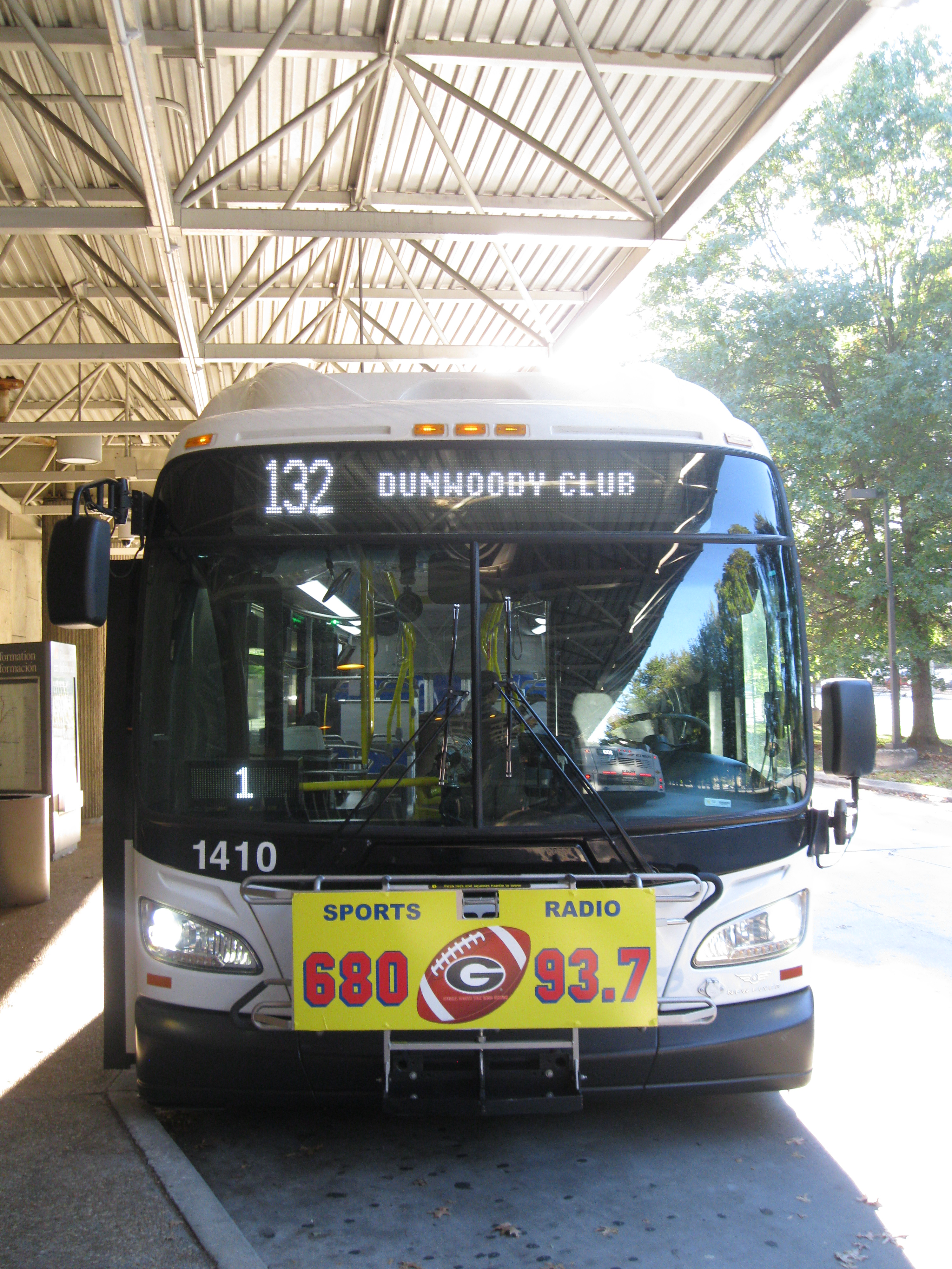 MARTA 2013 Xcelsior 1410 on the 132 bus.